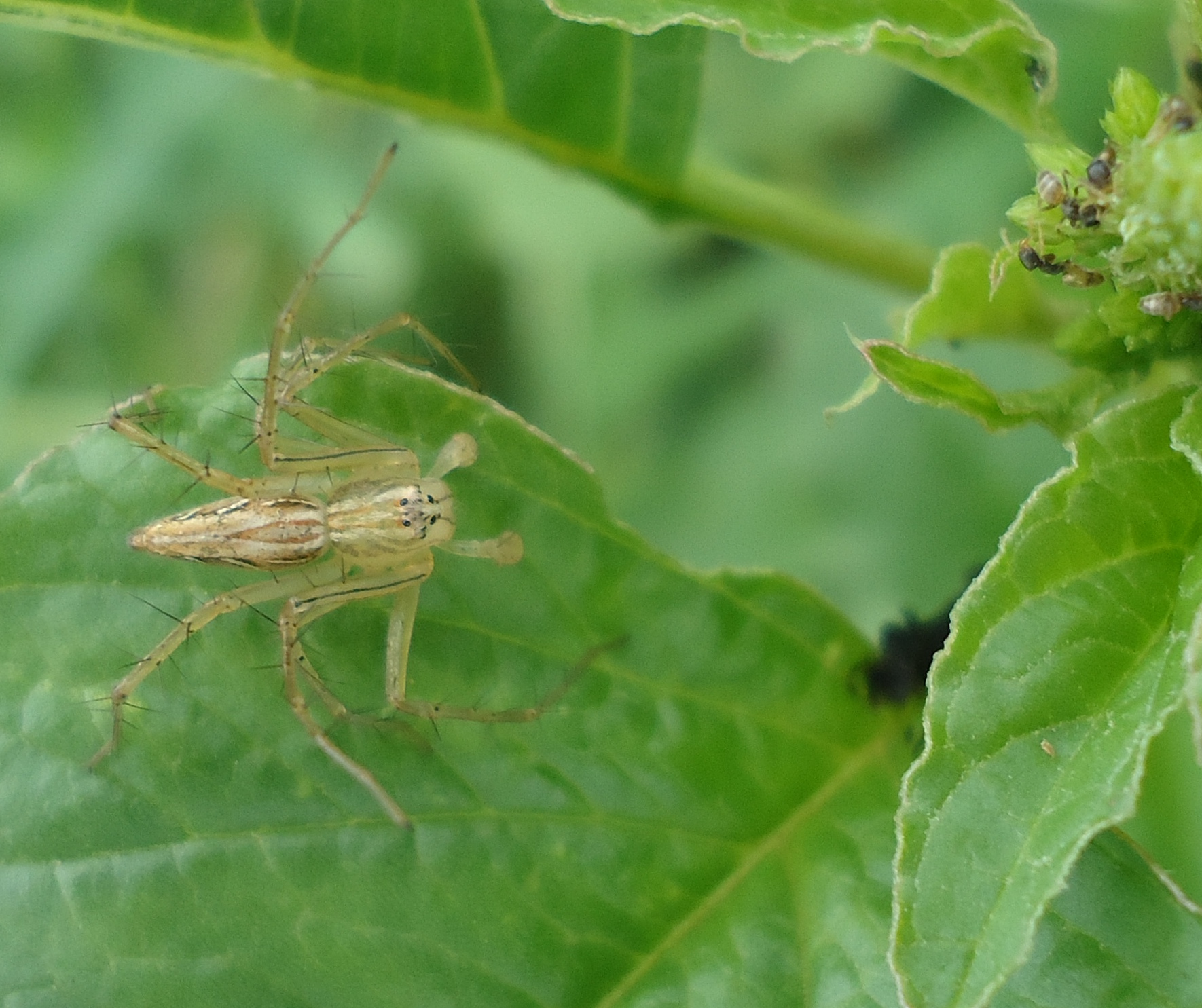 Oxyopes aspirasi (Philippines)